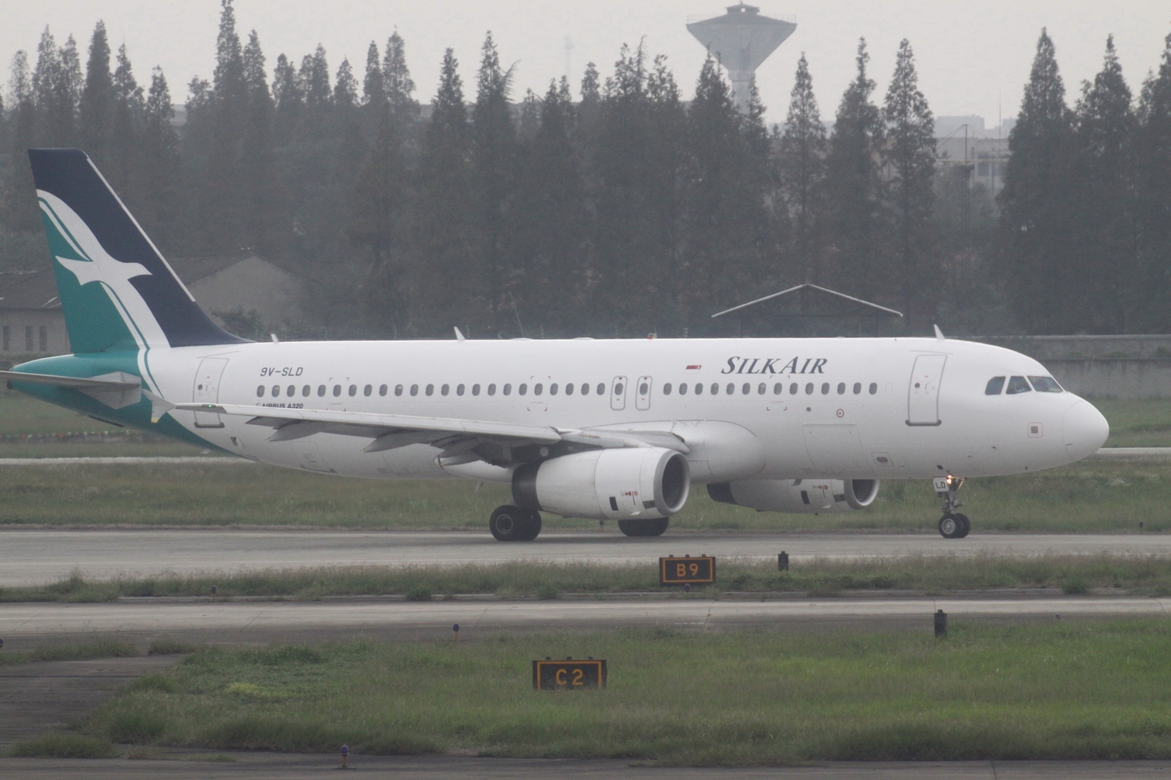 At Chengdu Shuang Liu